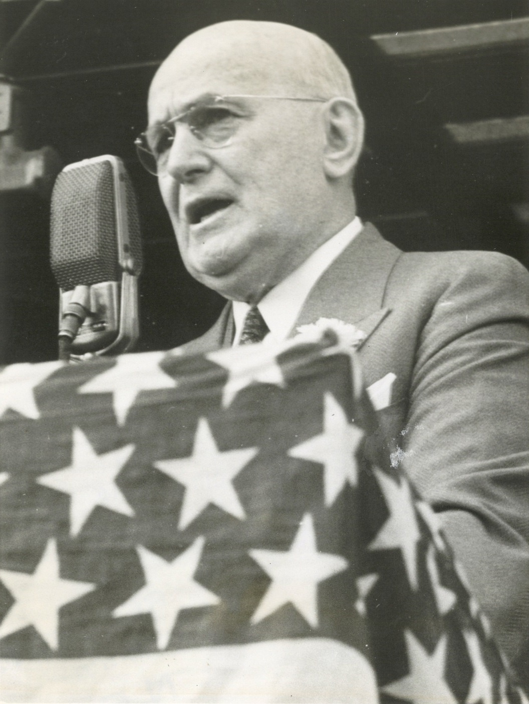 Daniel A. Driscoll, Congressman from New York (1909-1917) and Postmaster of Buffalo, New York (1934-1947). Driscoll acted as Master of Ceremonies at the dedication of the new post office in Harrison, New York.